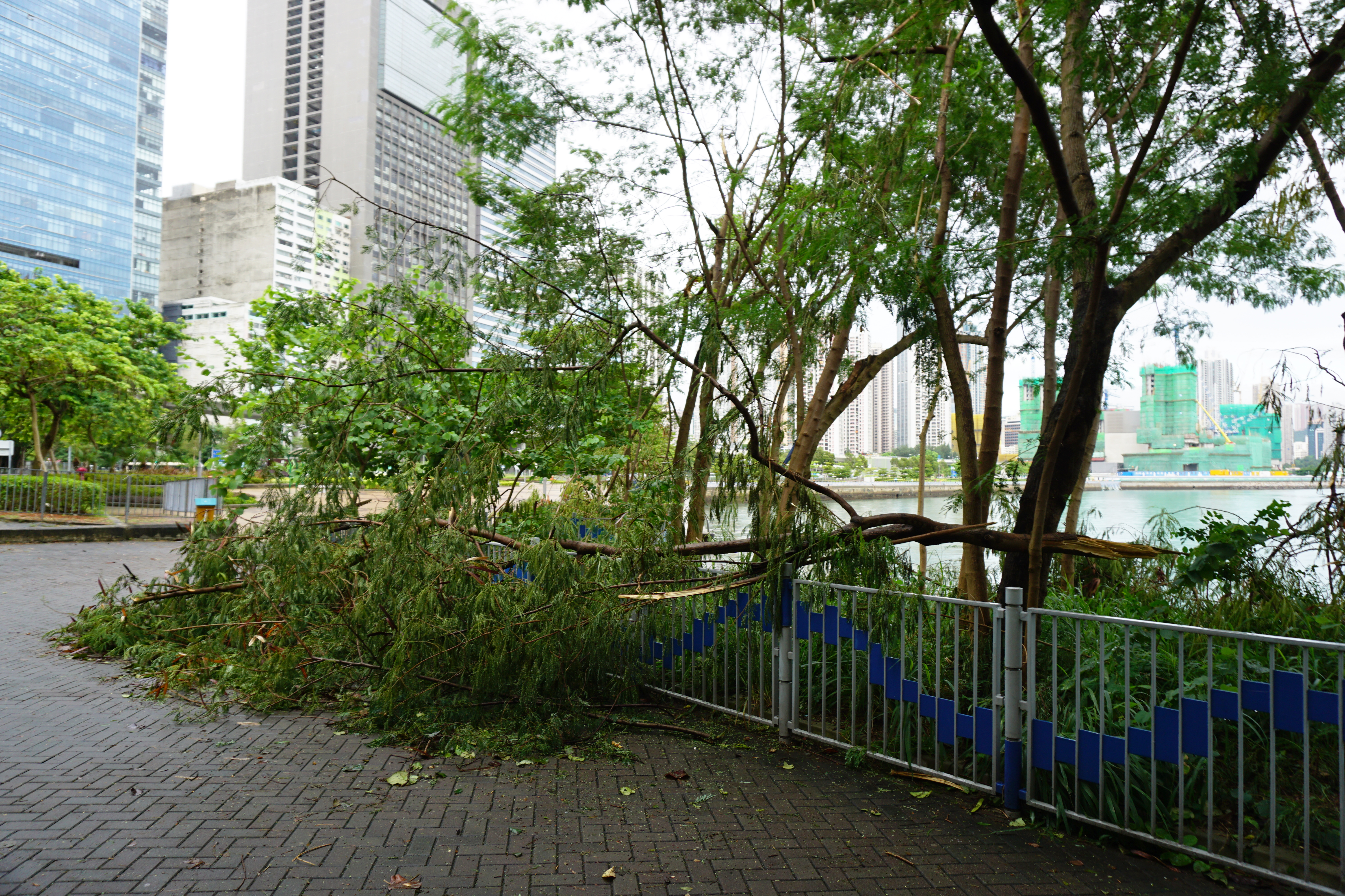 Typhoon Nida destruction in Tsuen Wan, Hong Kong.